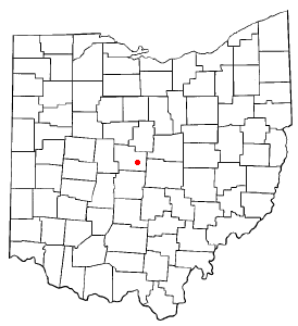 Locator map for Galena, Ohio